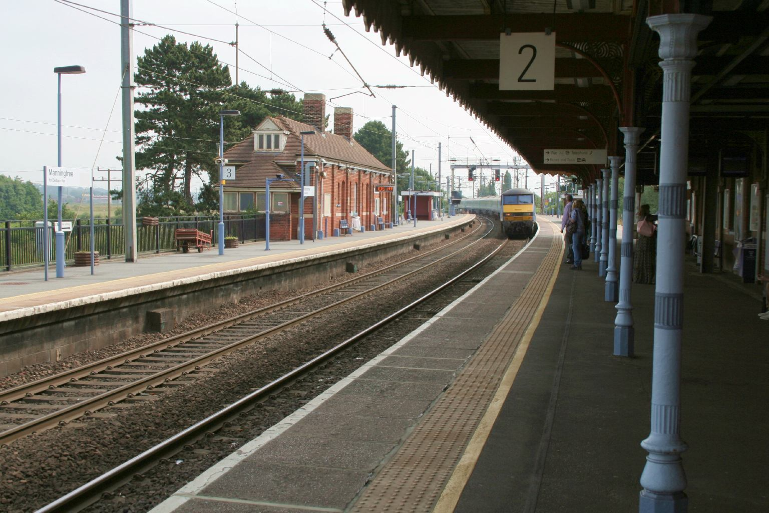 A train approaching Platform 2 of Manningtree railway station in July 2013.